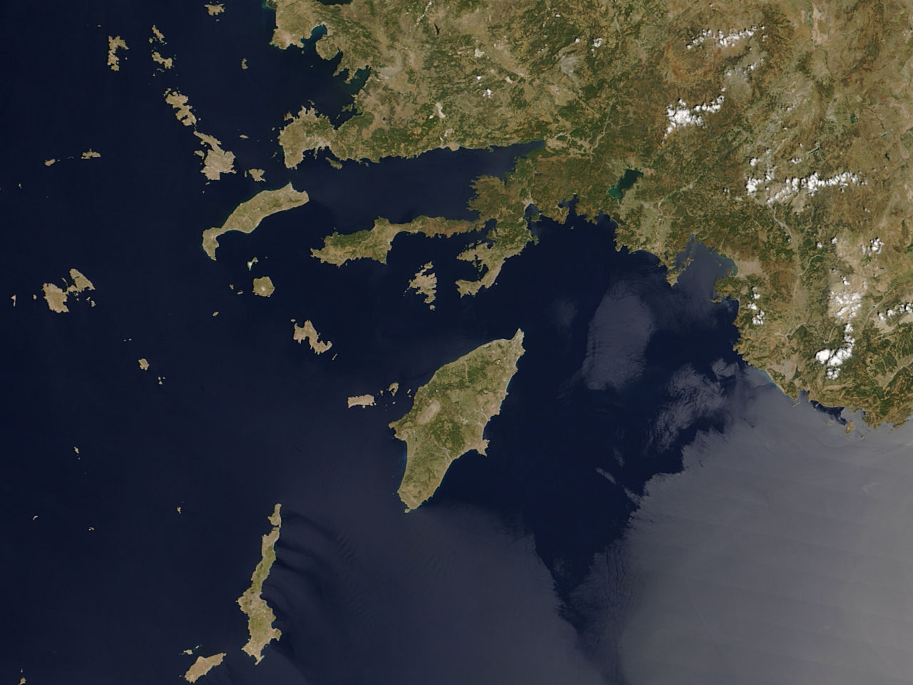 Satellite photograph of the Greek Dodecanese islands.